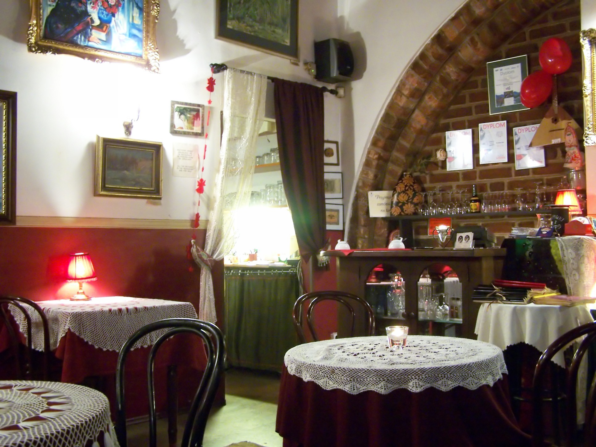 Restaurant "Wiśniowy Sad" in Kraków (Poland).